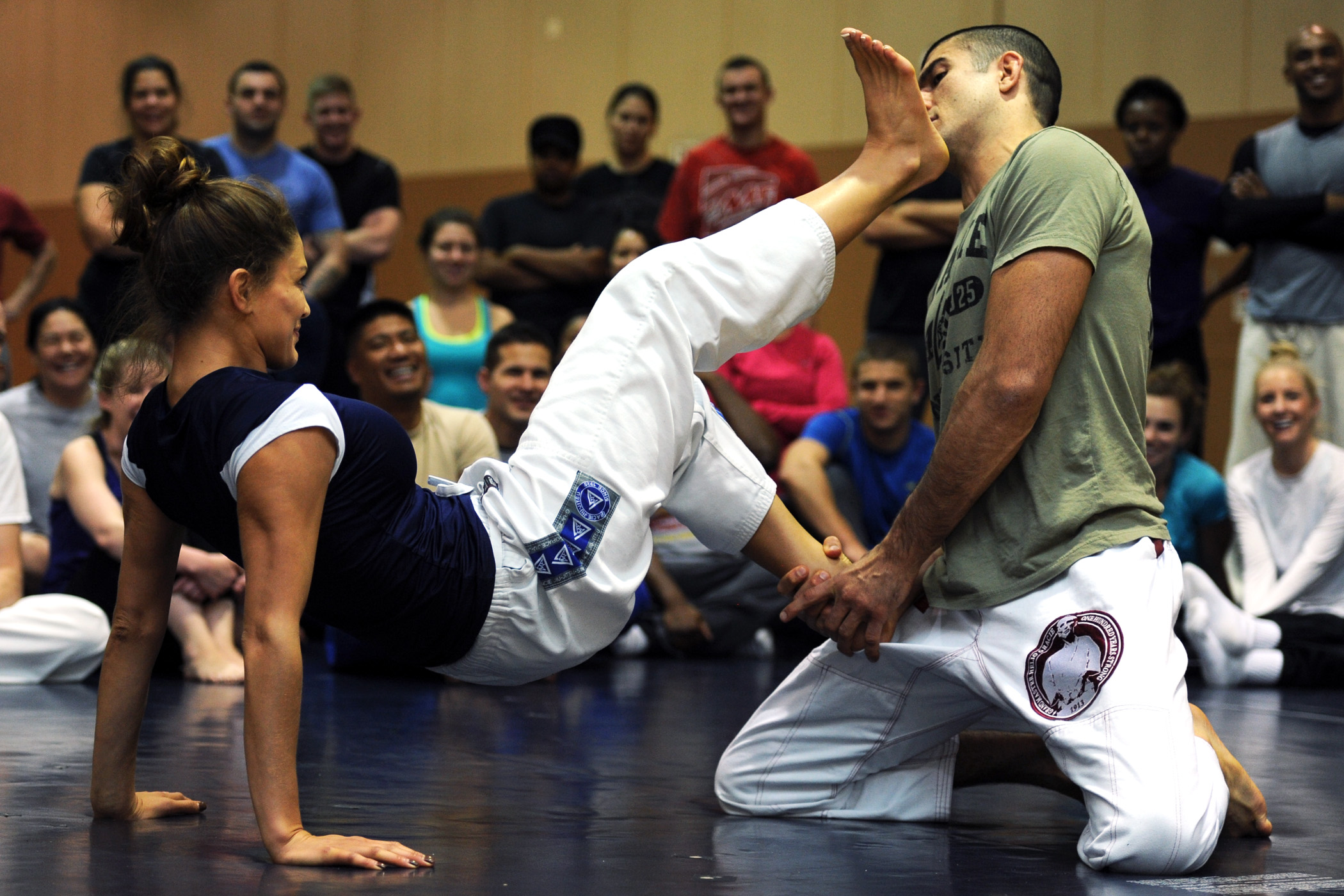 Eve Torres, Gracie Academy Women Empowered self-defense seminar instructor, demonstrates a kick drill as Rener Gracie, Gracie Academy Women Empowered self-defense seminar instructor, acts as an assailant. Gracie is a third degree black belt in Gracie Jiu-Jitsu and the second eldest grandson of Grand master Hélio Gracie, Gracie Jiu-Jitsu creator. (U.S. Air Force photo/Senior Airman Katrina Heikkinen)